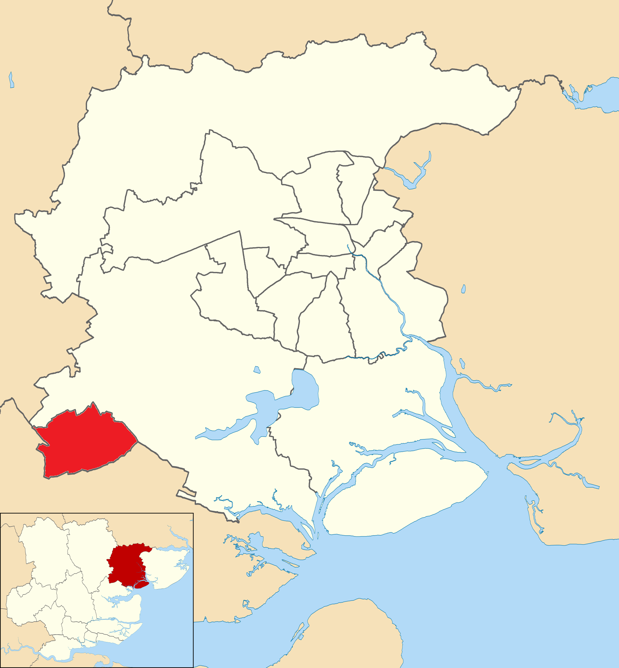 Tiptree ward highlighted within Colchester Borough